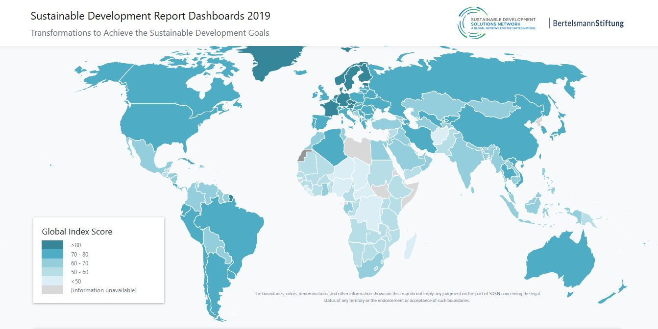 World map showing progress towards the Sustainable Development Goals. Work from the Sustainable Development Report of SDSN and Bertelsmann Stiftung.